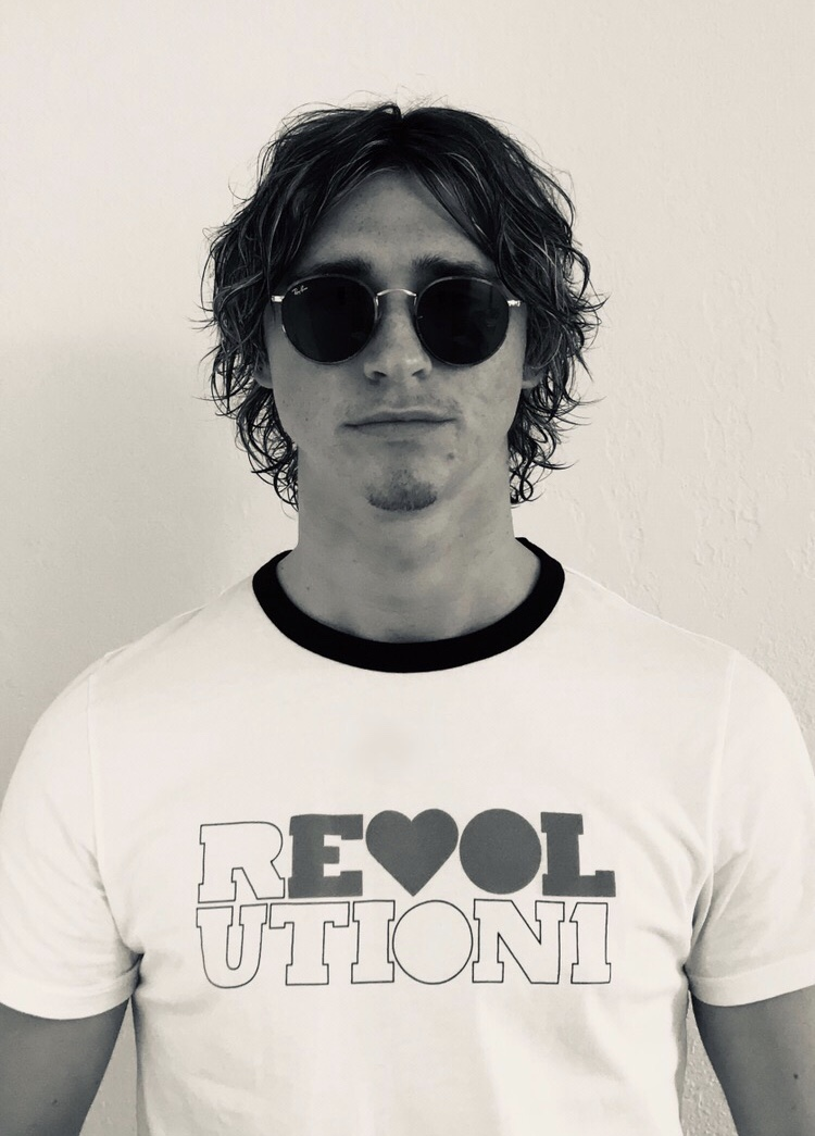 Portrait of Chris Andreucci in 2019